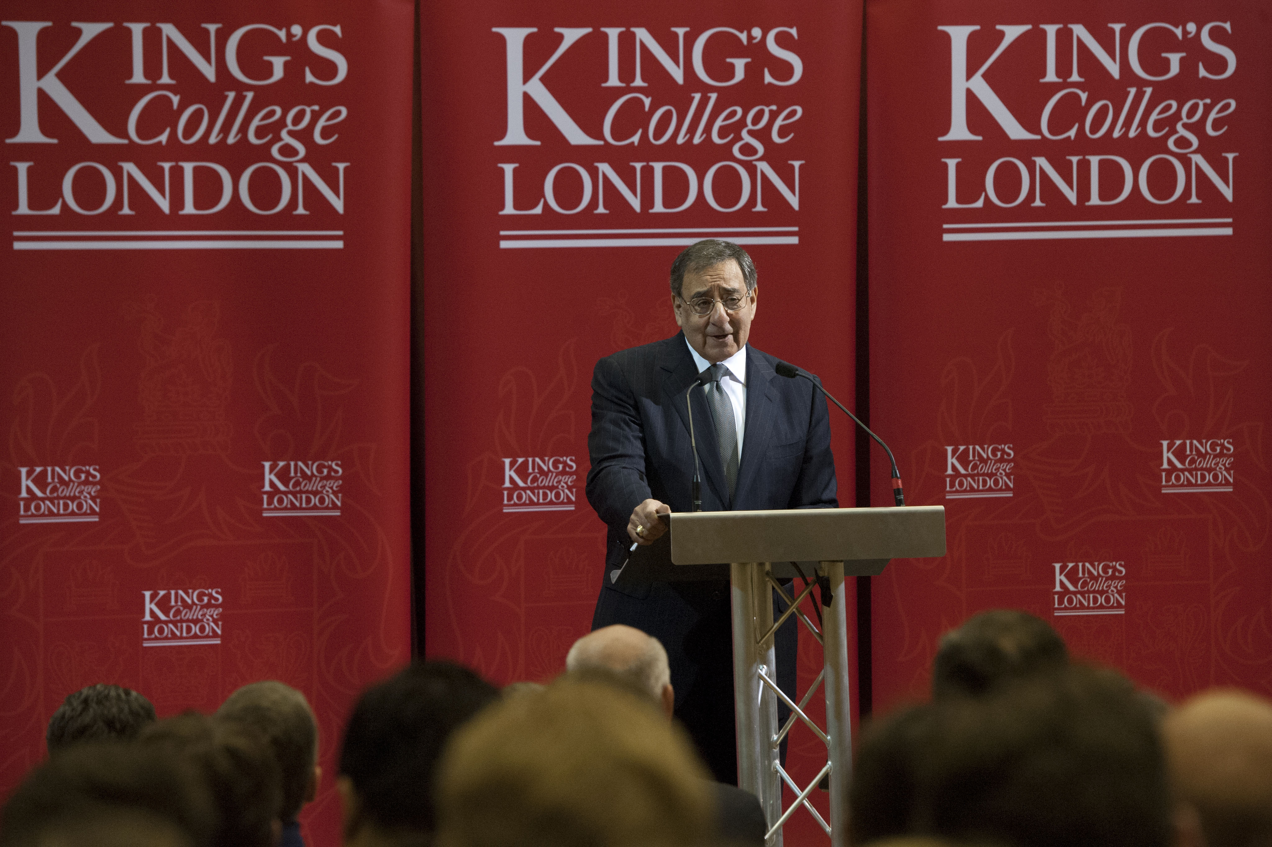 Leon Panetta speaks at King's College London